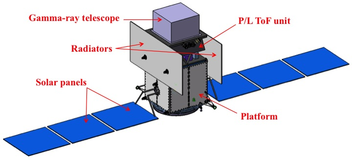 e-ASTROGAM spacecraft in deployed configuration. The space between the ToF unit and the spacecraft hosts the payload modules.